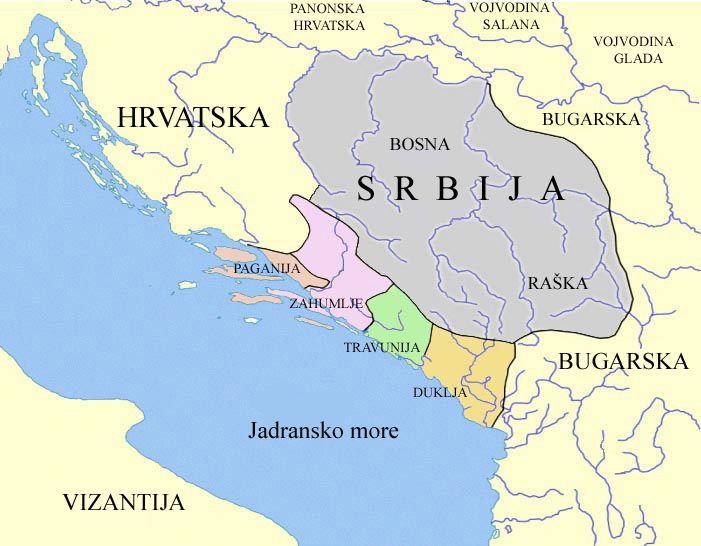 Historical map - Serb lands in the 9th century - Serbian language Latin script version.(Disputed: In the 9th century Serbia (in fact Rascia) was much smaller.)